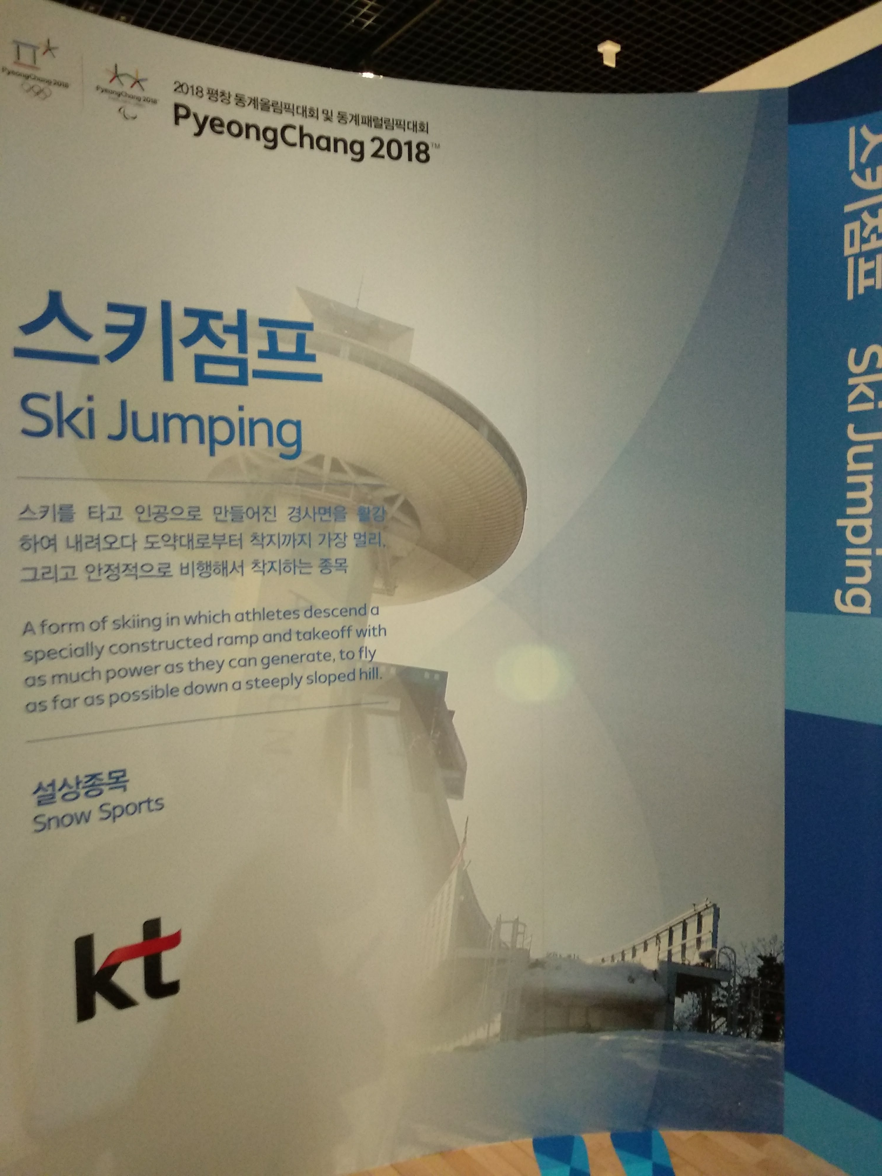 Alpensia Ski Jumping Stadium exhibited at the National Museum of Korean Contemporary History(Korean Modern Sports History Exhibition, Celebrating the Pyeongchang Olympic Winter Games/Korean Sports, A History Written in Sweat)